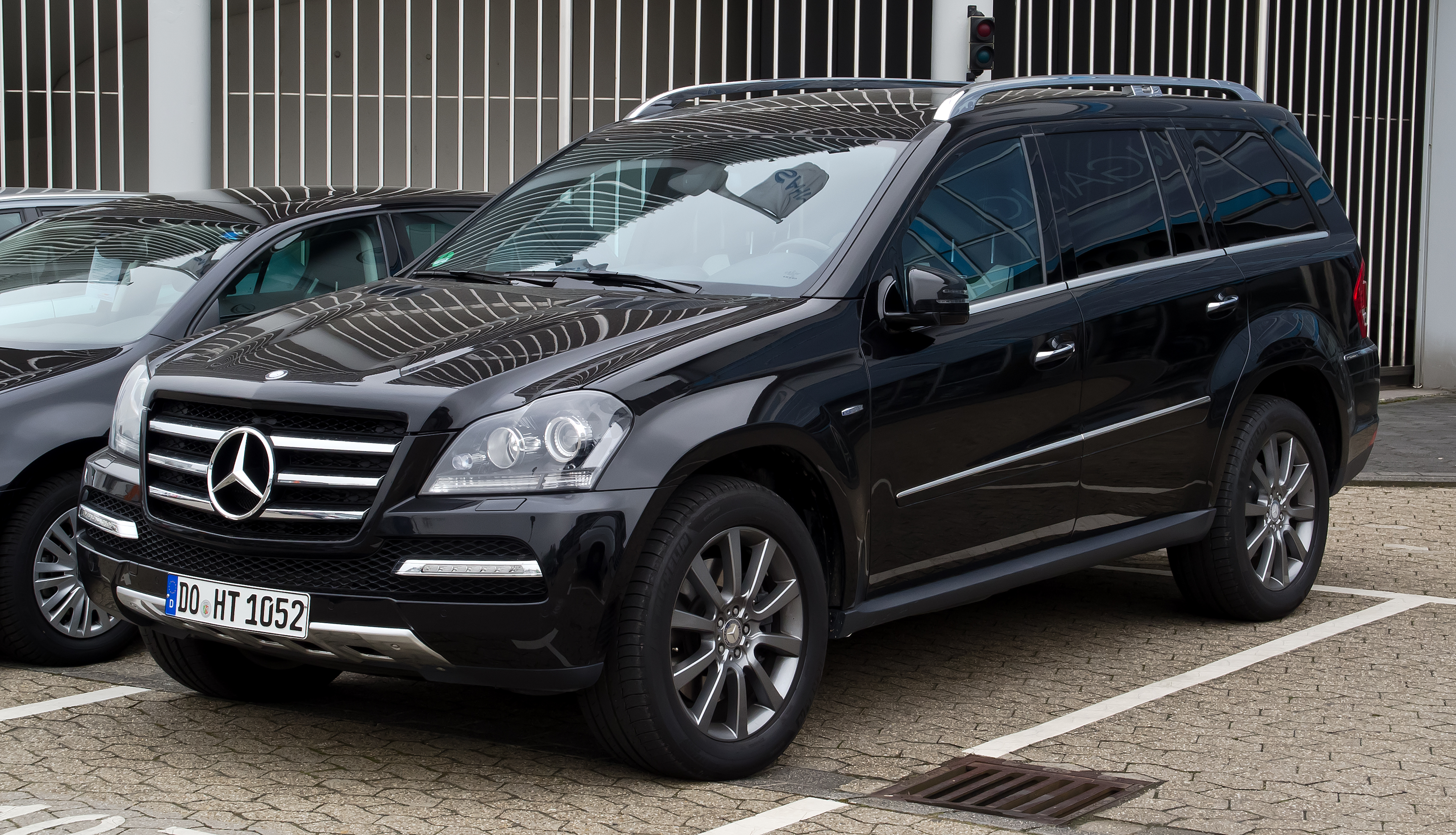 Mercedes-Benz GL 350 CDI 4MATIC BlueEFFICIENCY Grand Edition (X 164, Facelift)